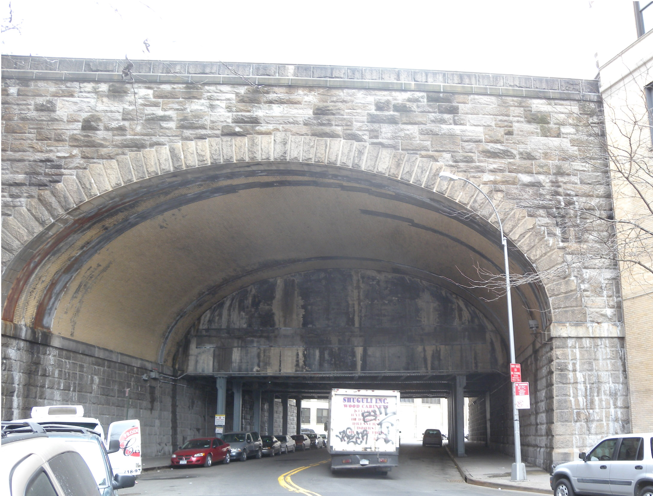 Looking southeast as 175th Street passes under Grand Concourse and the exposed Grand Concourse subway line on a cloudy midday.